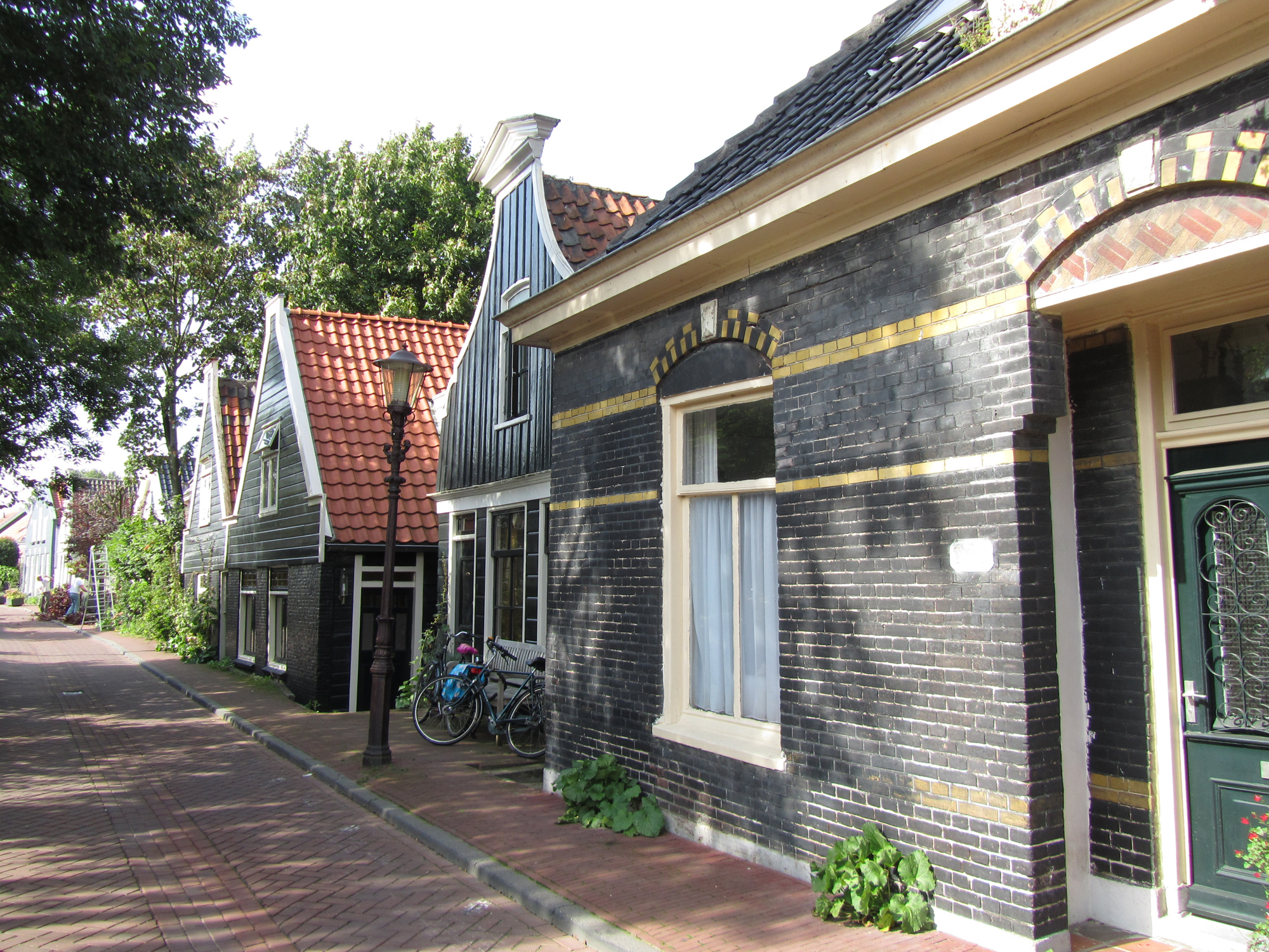 Traditional wooden houses along the Nieuwendammerdijk in the Dutch village of Nieuwendam, now part of Amsterdam.